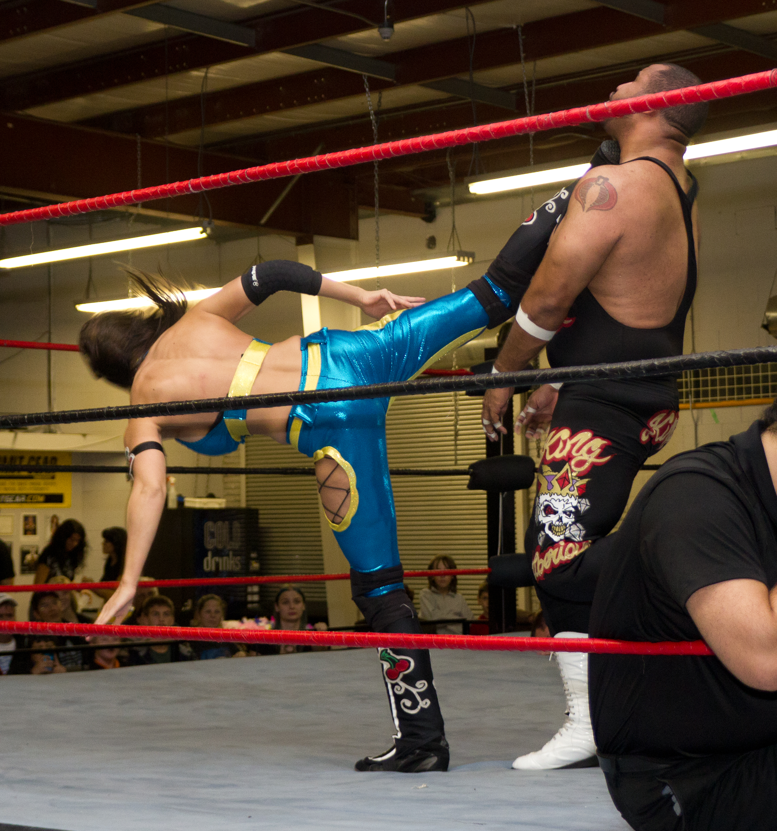 Canadian wrestler Cherry Bomb delivering a superkick to Tiberius King